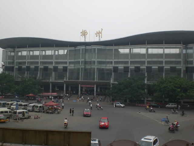 柳州站外观